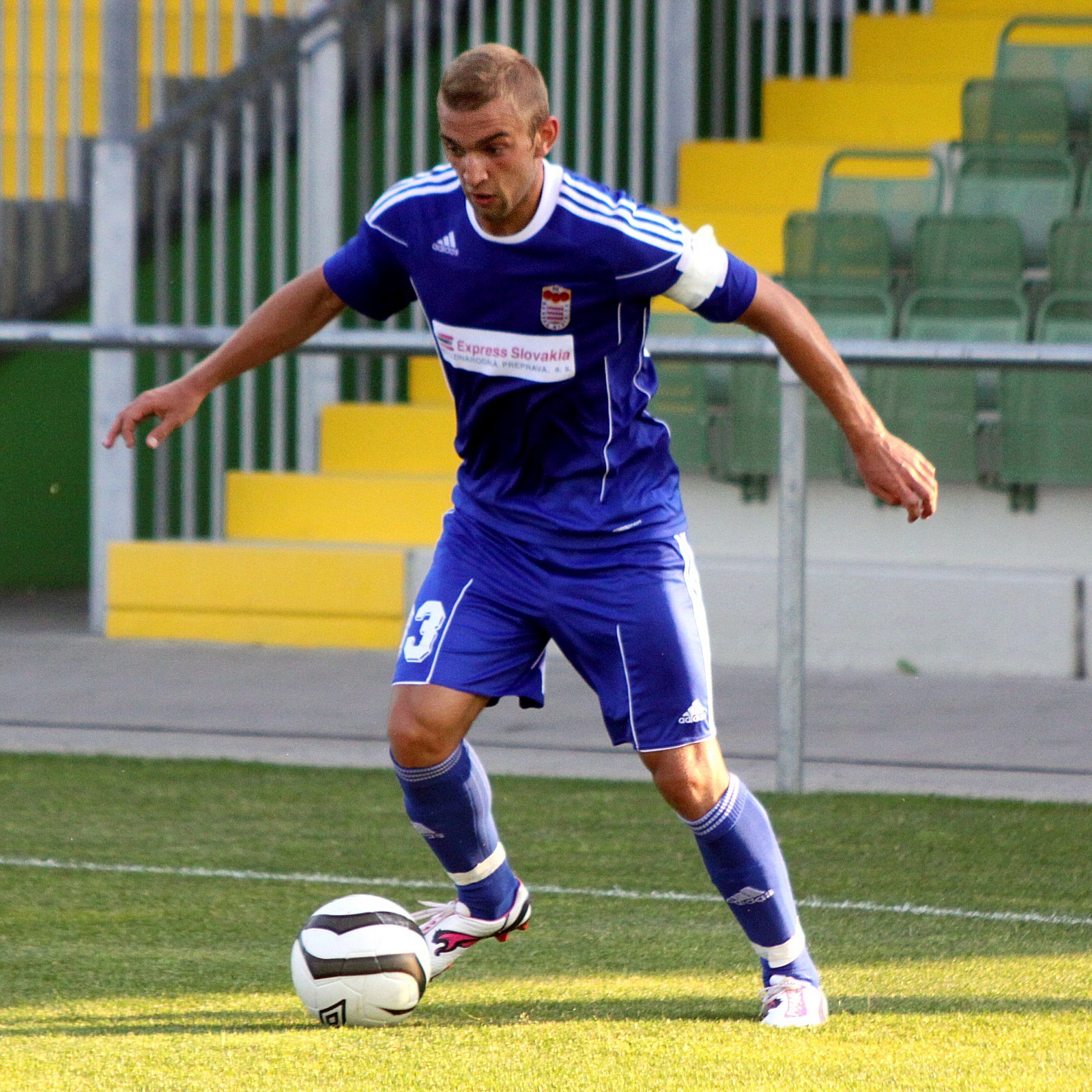 Friendly match SV Mattersburg vs FK Dukla Banská Bystrica (2:2) at 2013-06-21 in Mattersburg. – The photo shows Marek Hlinka (FK Dukla Banská Bystrica).